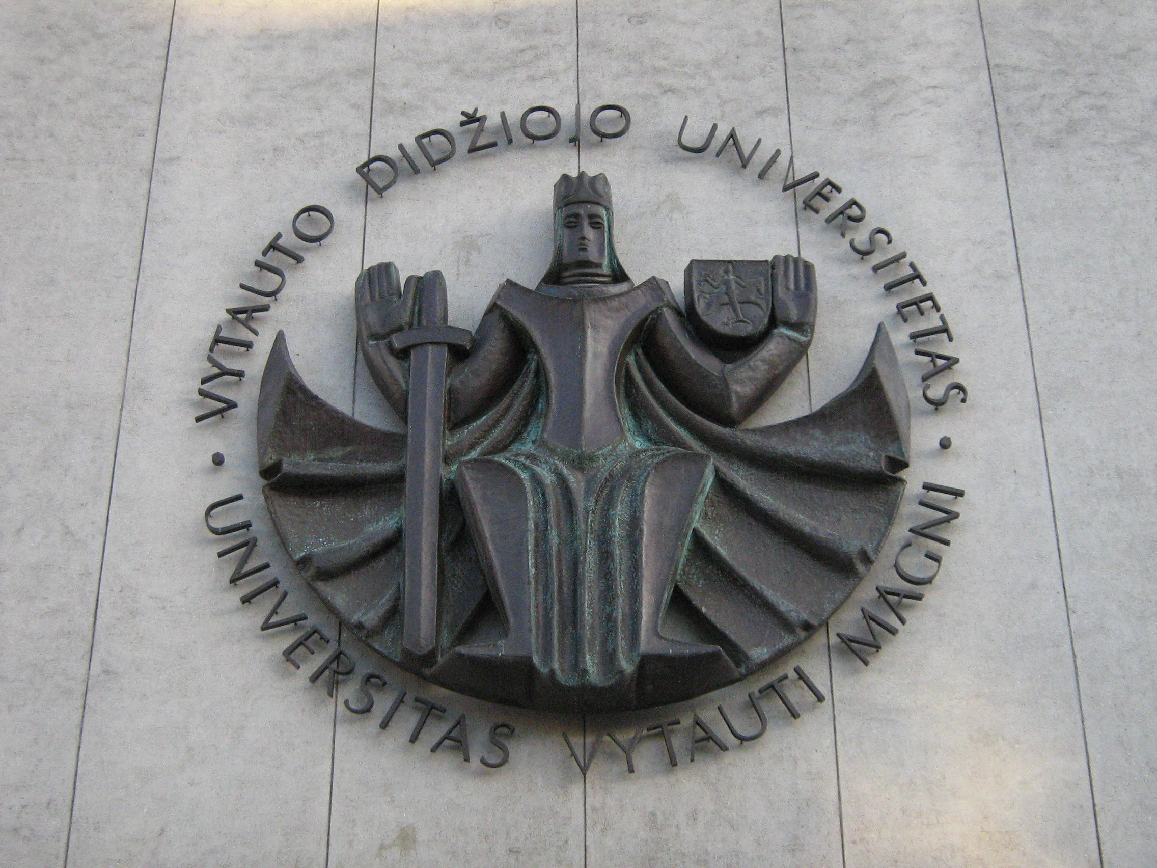 VMU emblem, displaying Vytautas Magnus stamp, now on VMU big hall.